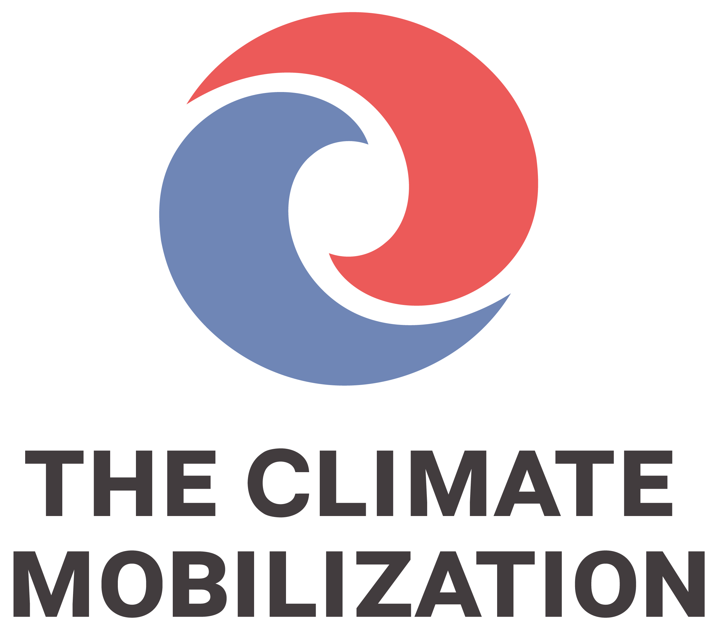 This is the logo for The Climate Mobilization, a 501(c)(4) nonprofit working on climate change.